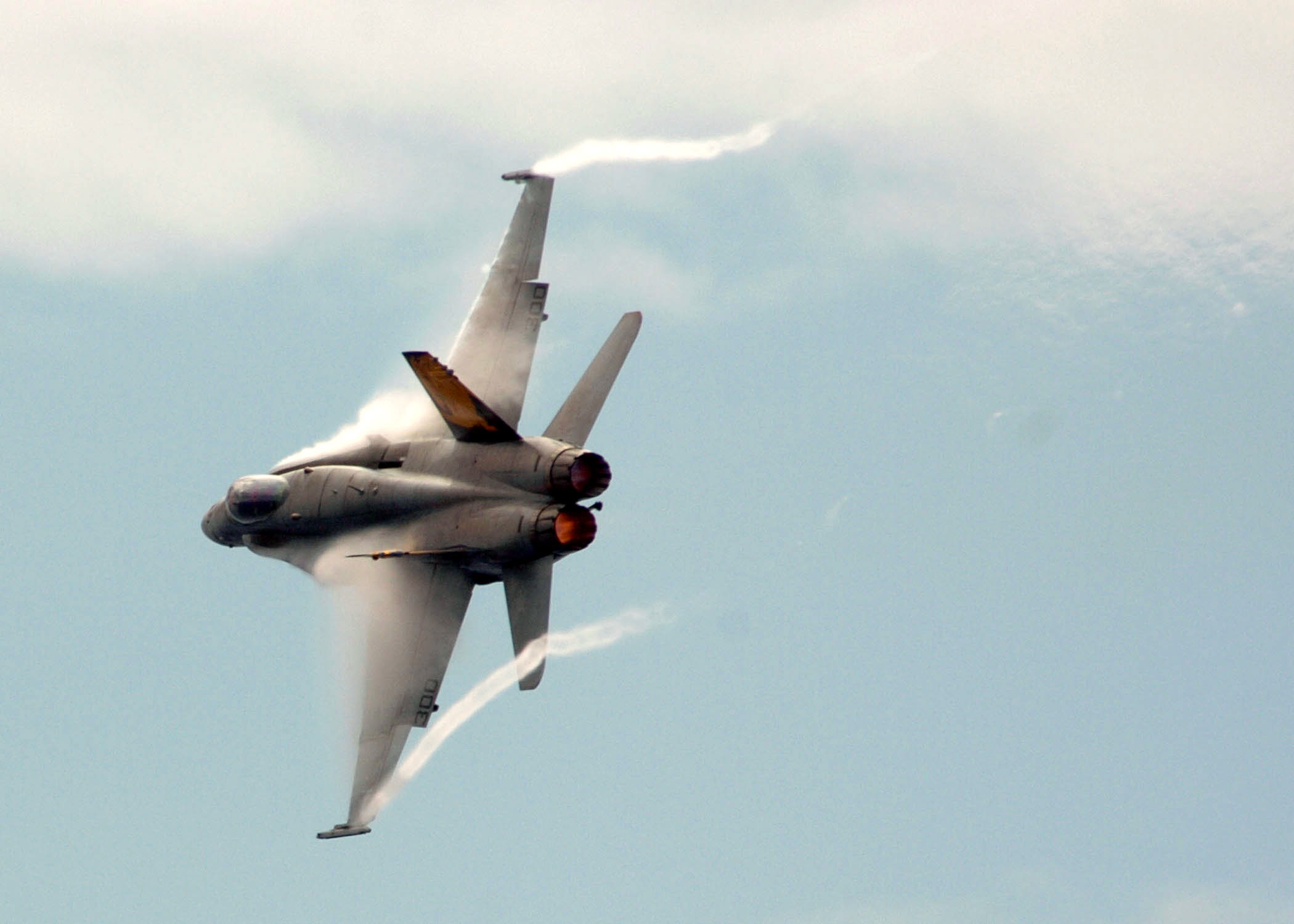 Quote from description page: "An F/A-18C Hornet, assigned to the "Golden Dragons" of Strike Fighter Squadron One Nine Two (VFA-192), conducts a maneuver, causes vapor to form, near the conventionally powered aircraft carrier USS Kitty Hawk (CV 63)."